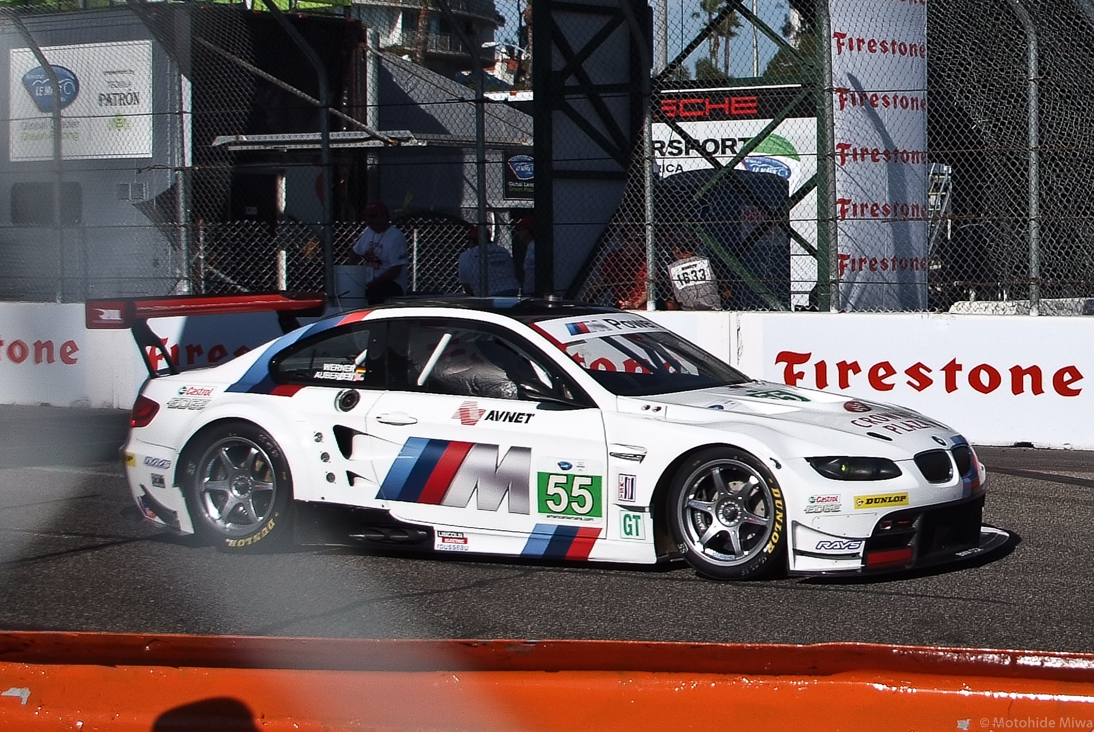 Rahal Letterman Lanigan Racing BMW M3 at the 2011 American Le Mans Series at Long Beach.